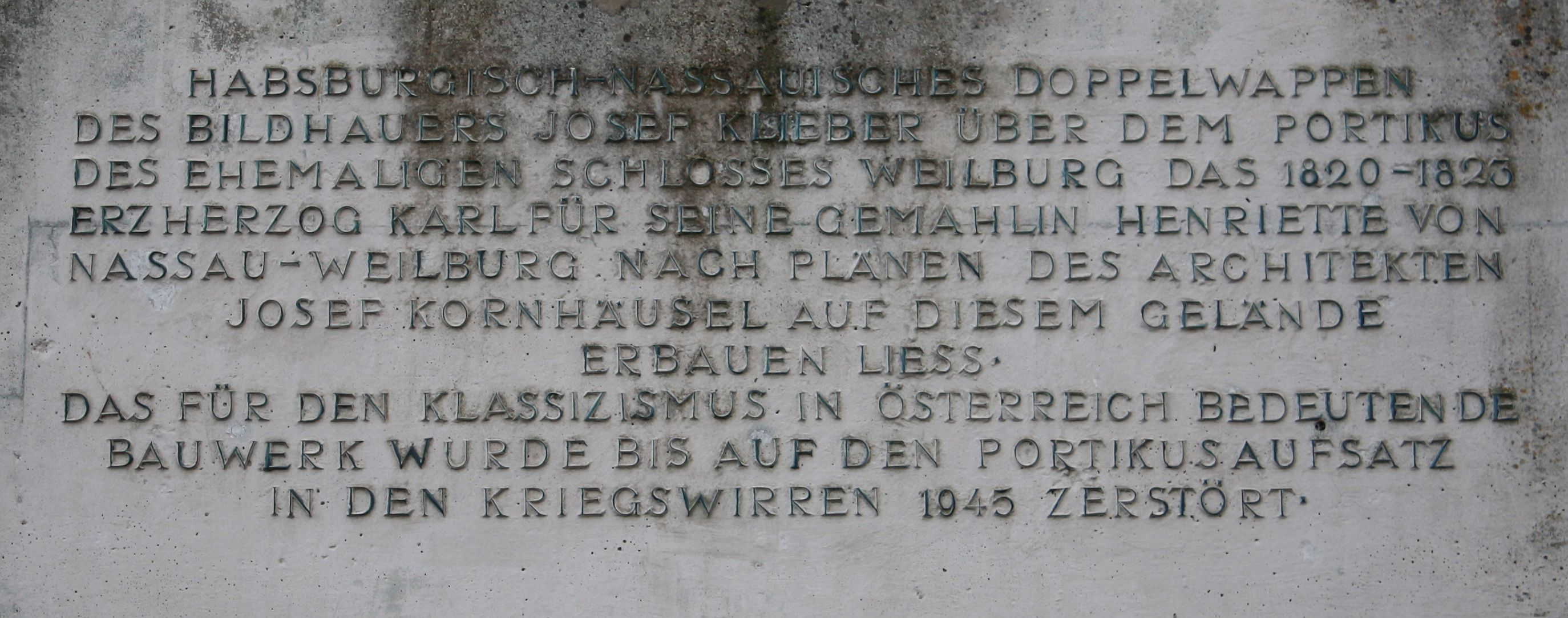 Rest of Weilburg in Baden bei Wien, Lower Austria